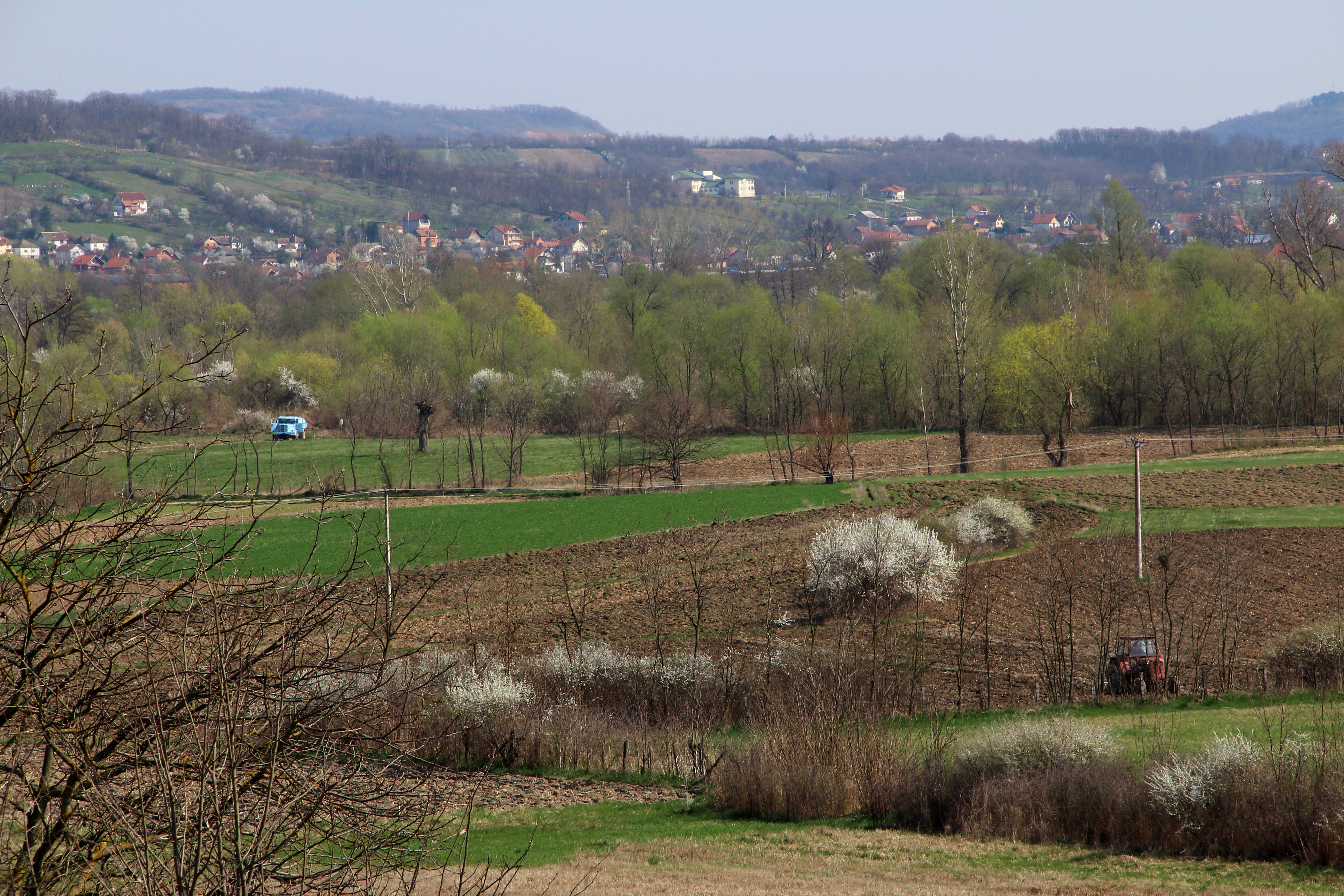 Šušeoka village - Municipality of Valjevo - Western Serbia - panorama - behind the village of Divci 3